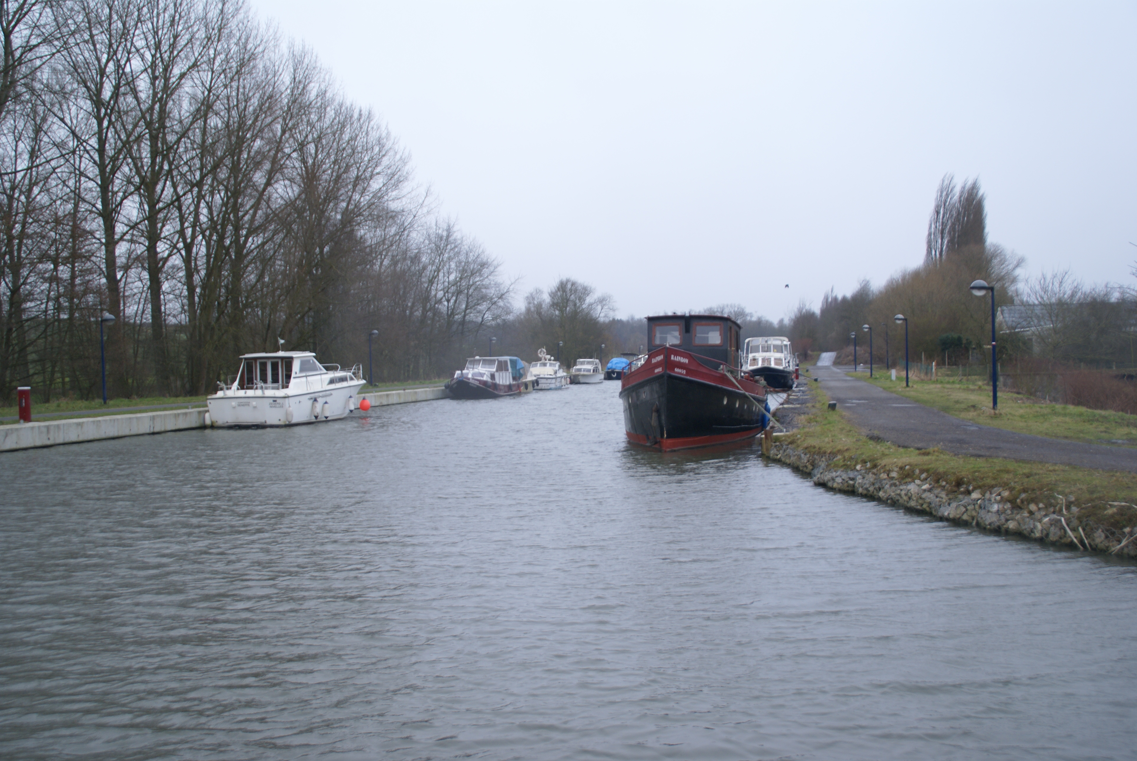 Seneffe (Belgium): Boats at the Port de Seneffe